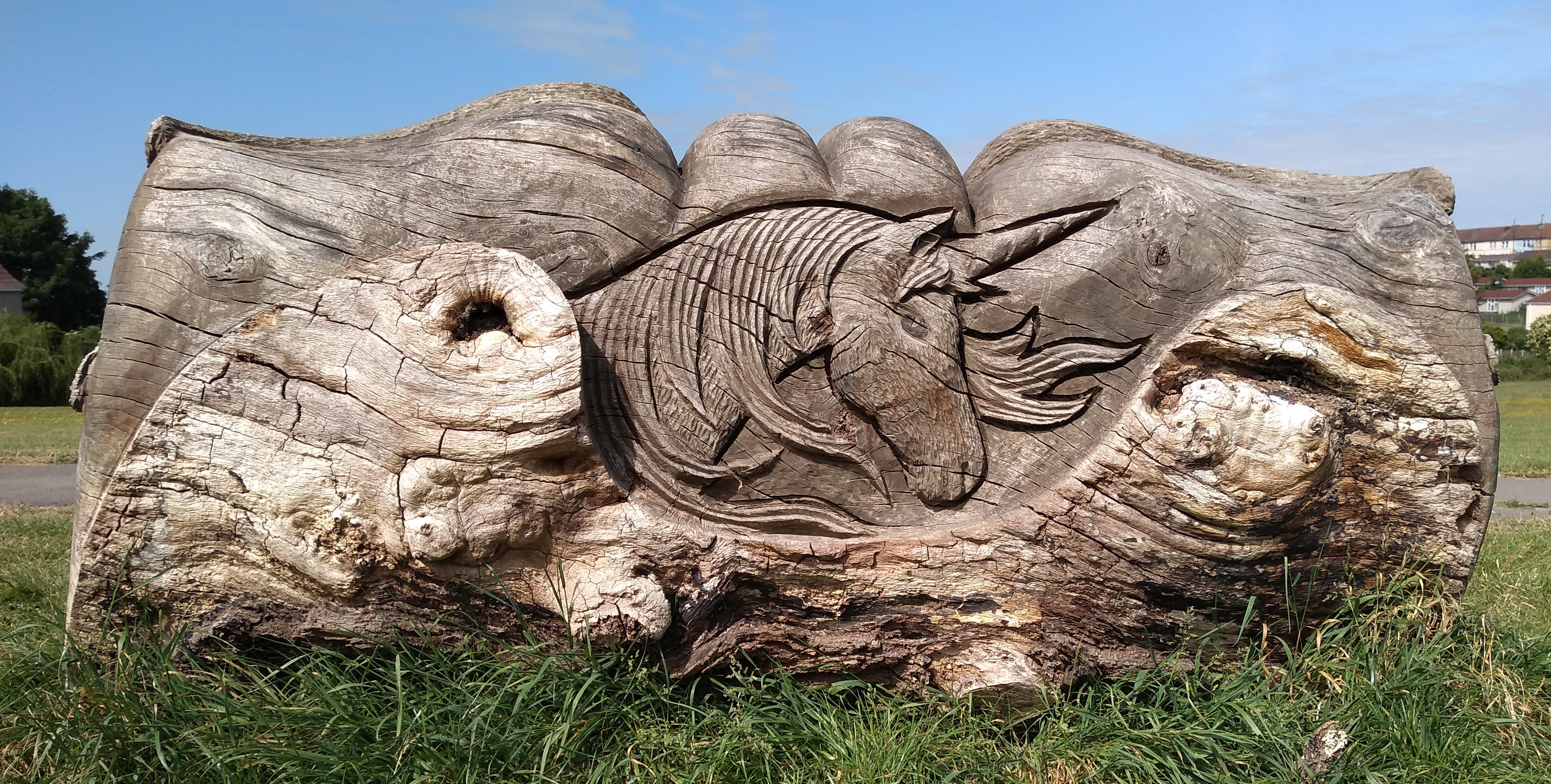 Back of Becky's bench